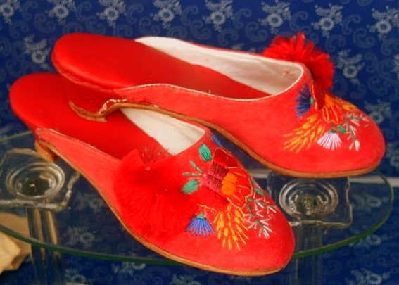 Skipper from Szeged